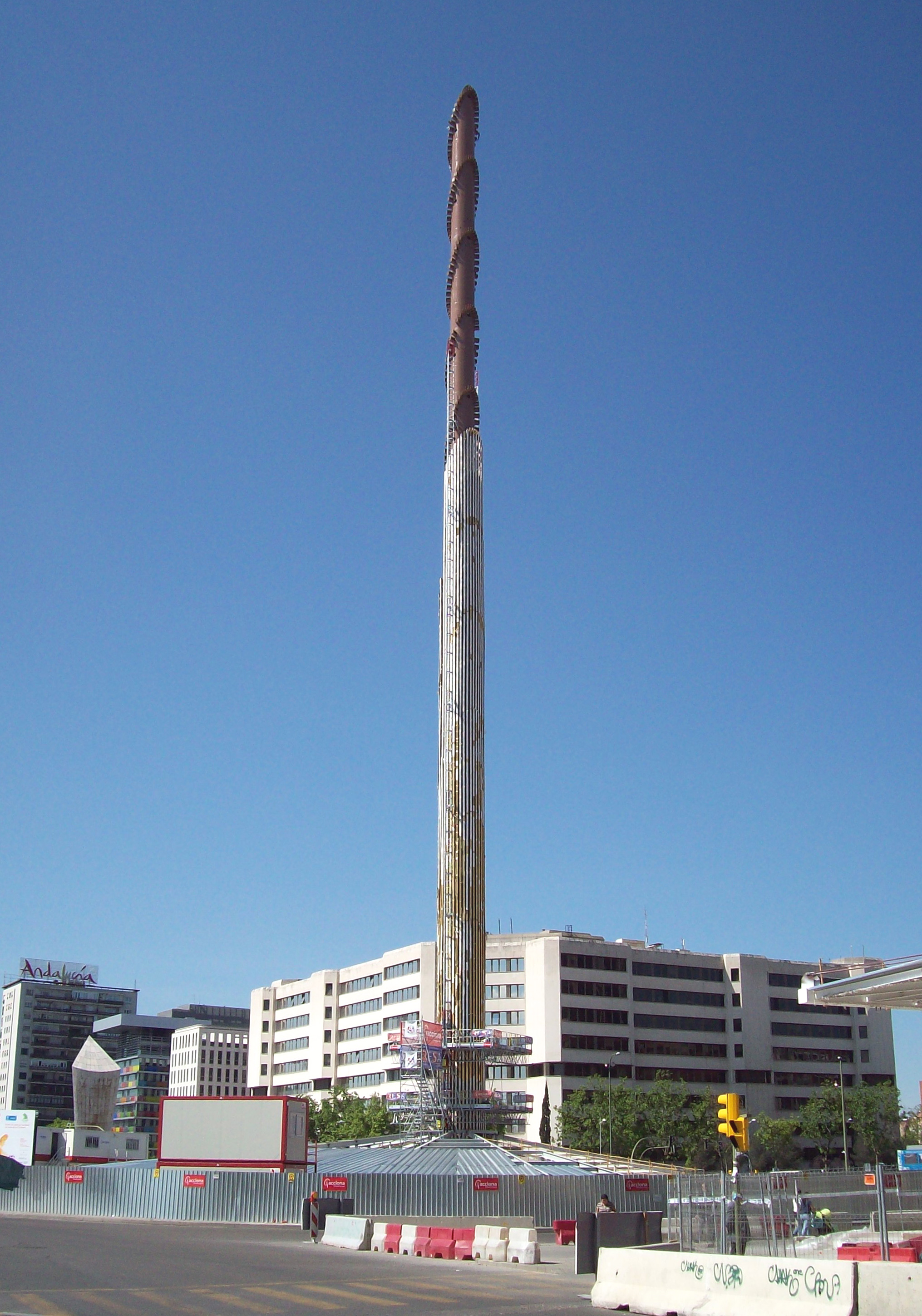 View, from the north-east angle, of the so-called Obelisco de la Caja under construction in Madrid (Spain).